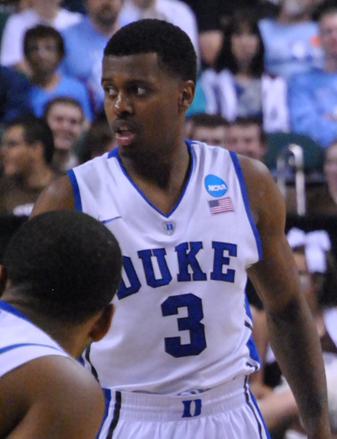 C. J. McCollum ready the shoot free throws in the first half.